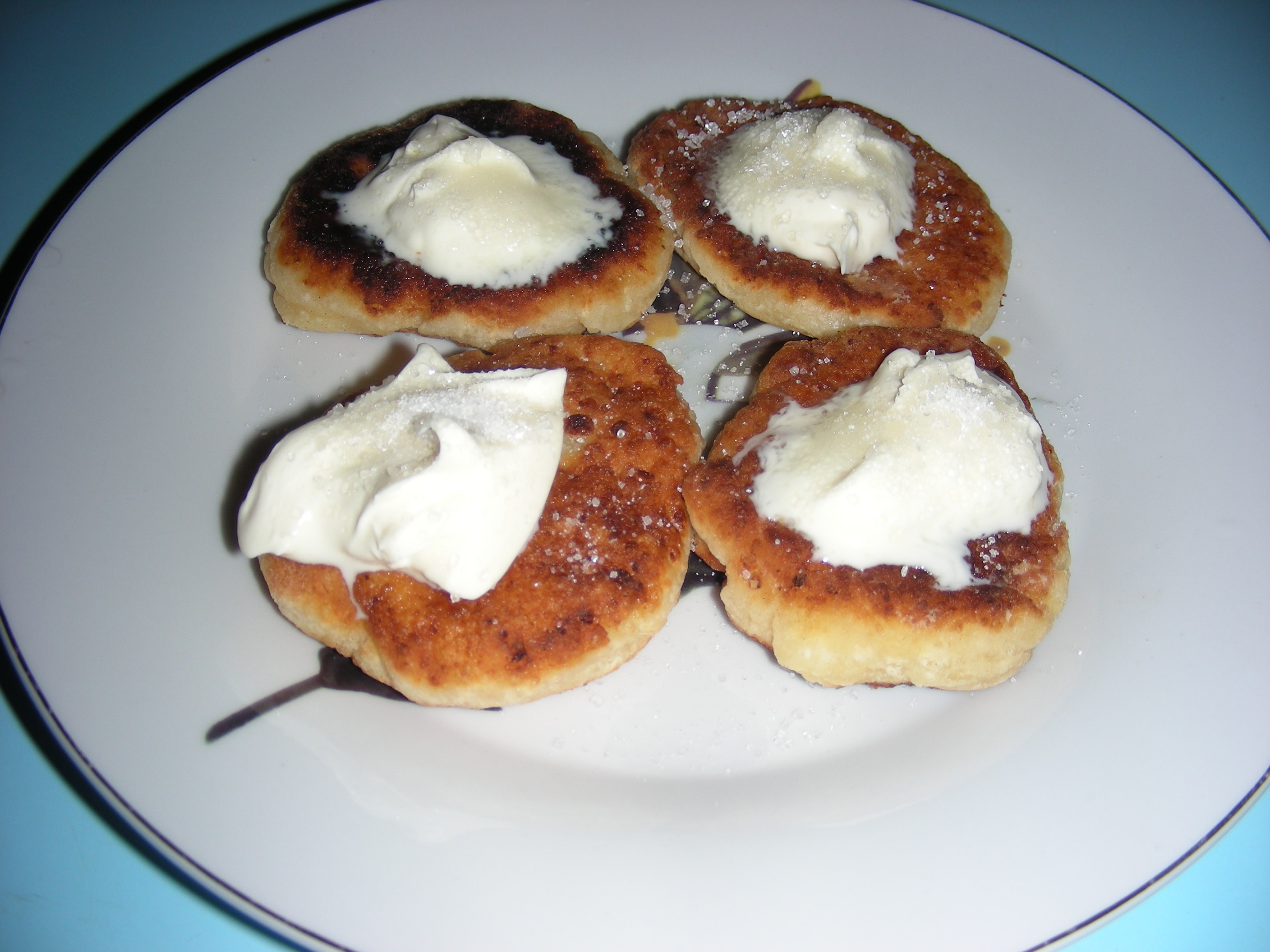 Curd pancakes